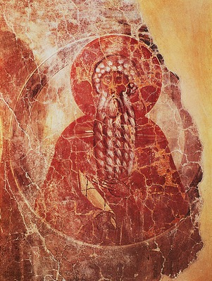 Venerable. Arseny Great. Painting c. Our Savior on Ilyina in Novgorod. Master Theophanes. 1378